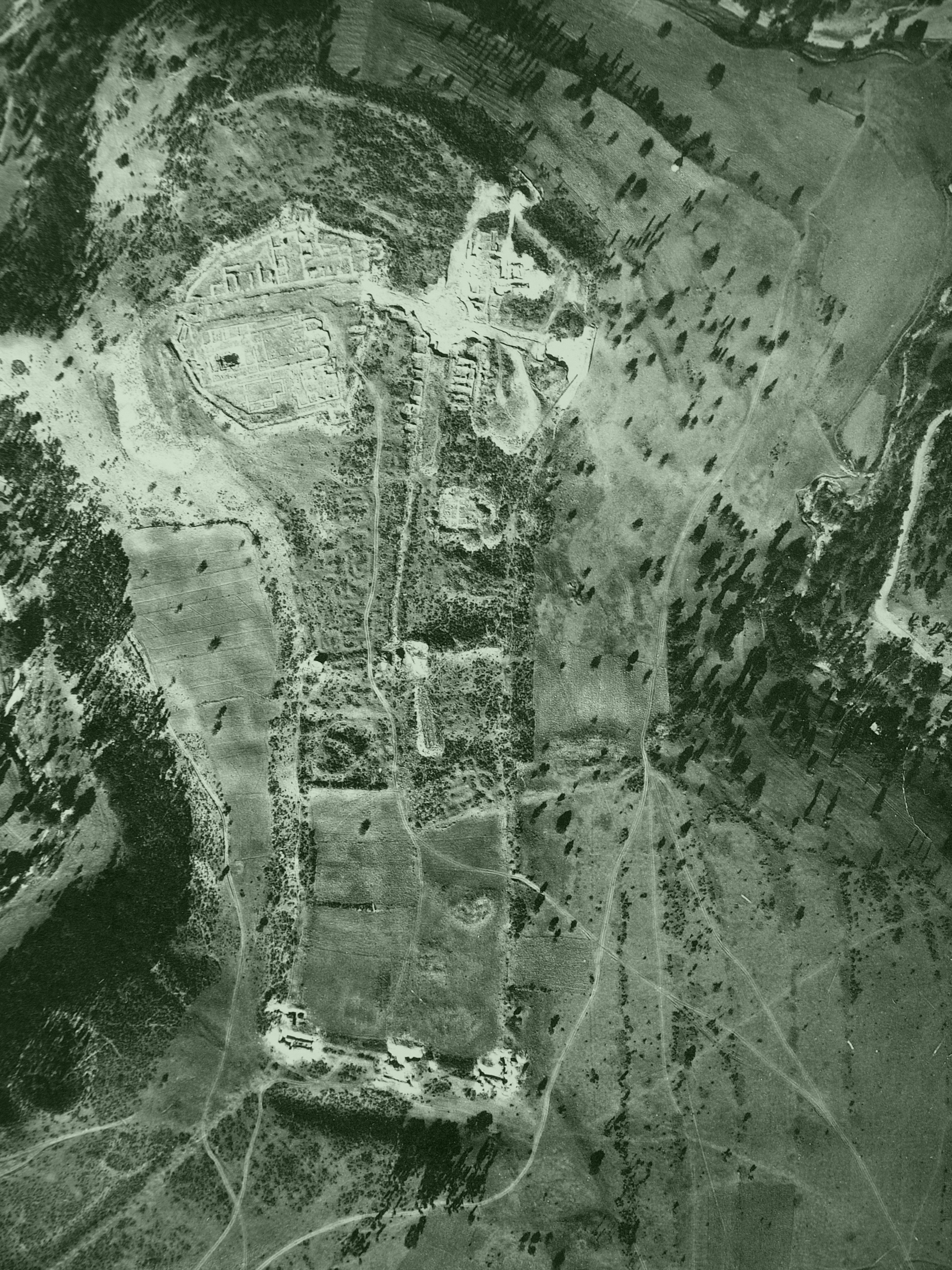 Justiniana Prima archeological site, aeroimage.